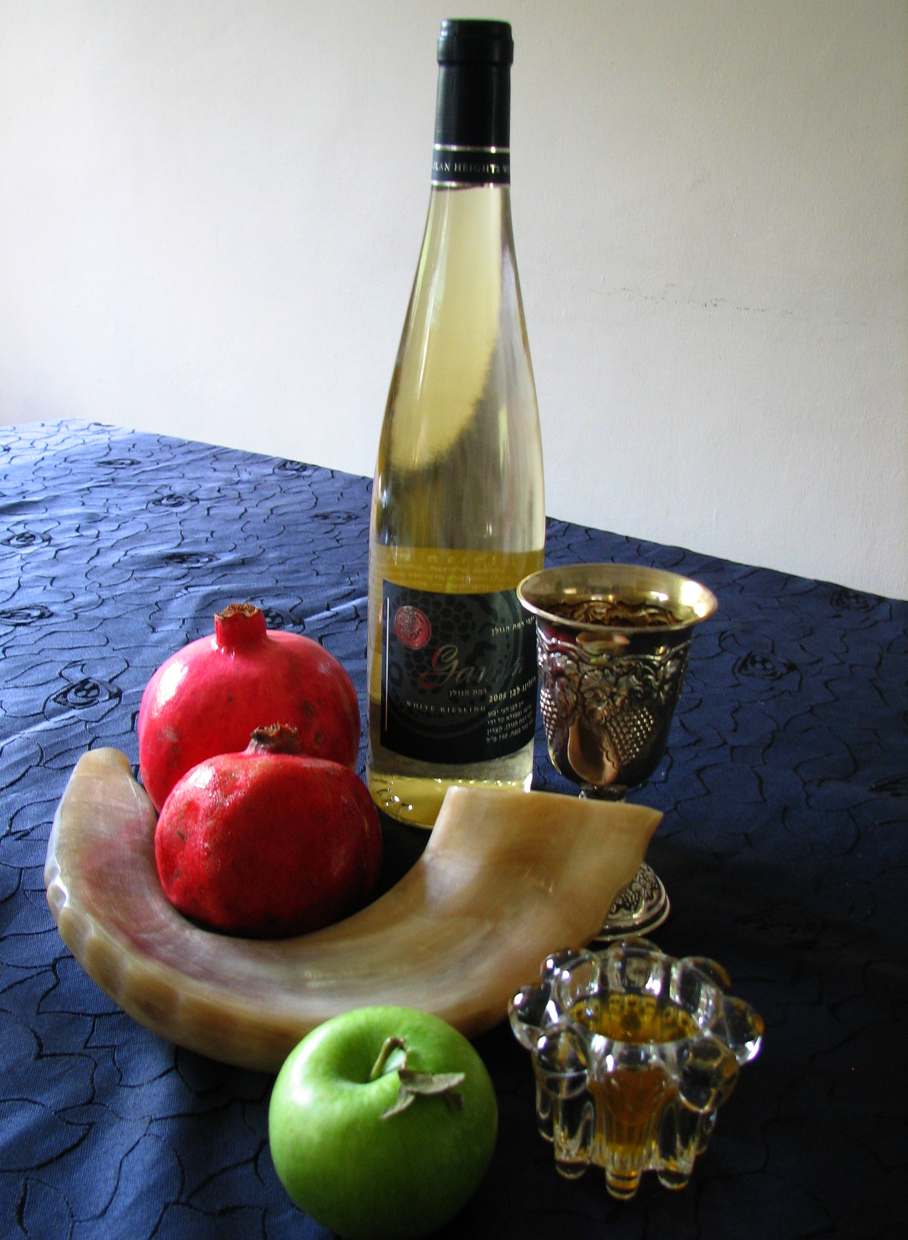 Symbols of Rosh Hashana, the Jewish New Year: Shofar, apples, honey in glass honey dish, pomegranates, wine, silver kiddush cup